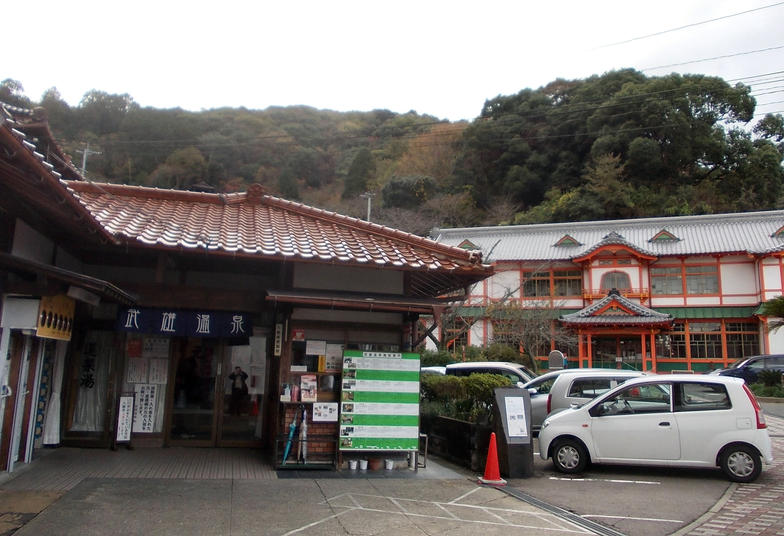 This is a view of inside the Takeo Onsen hot springs from the Romon entrance gate. Motoyu, one of the three public baths in this area, is on the left side, and Takeo Onsen Shinkan Museum, formerly used as a public bath until 1973, is on the right side. It was originally built in 1914 by Tatsuno Kingo and was rebuilt in March 2003.